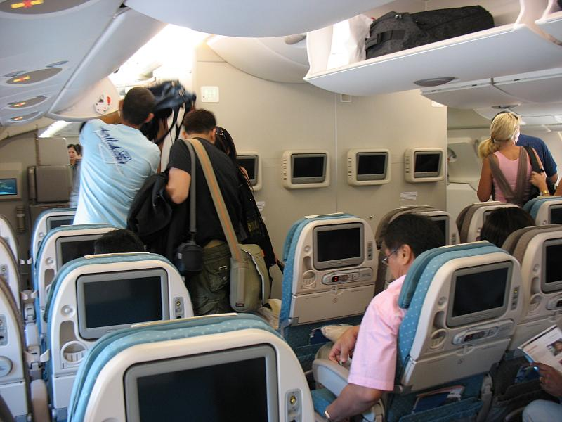 A part of Singapore Airline's interior for the Airbus A380